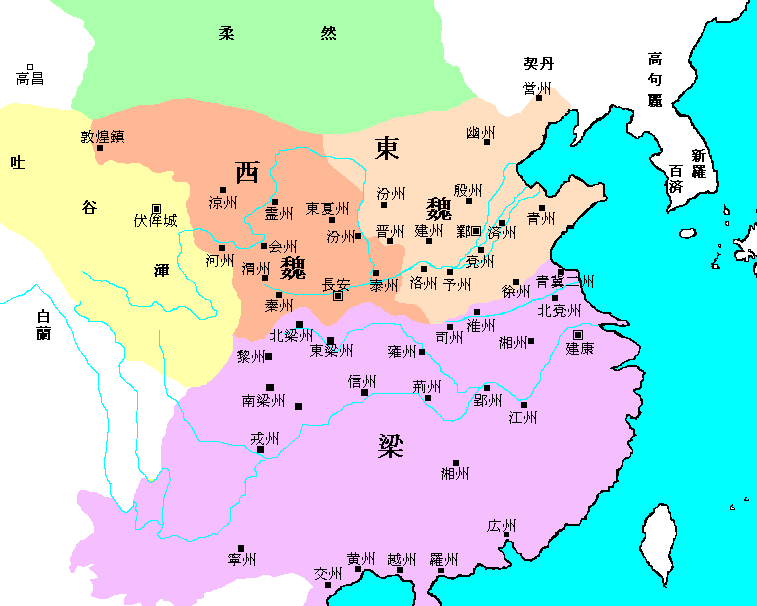 Western Wei in orange, Eastern Wei in brown